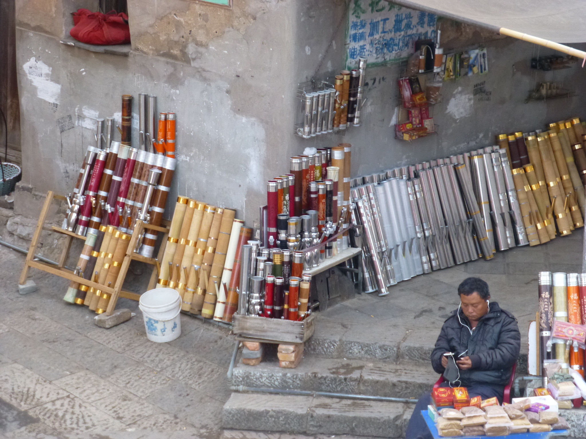 A vendor of traditional smoking pipes and tobacco in the old town of Lin'an (Jianshui County, Yunnan), near Chaoyang Gate.